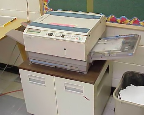 A small, much used Xerox photocopier in the library of GlenOak High School in Canton, Ohio, USA.